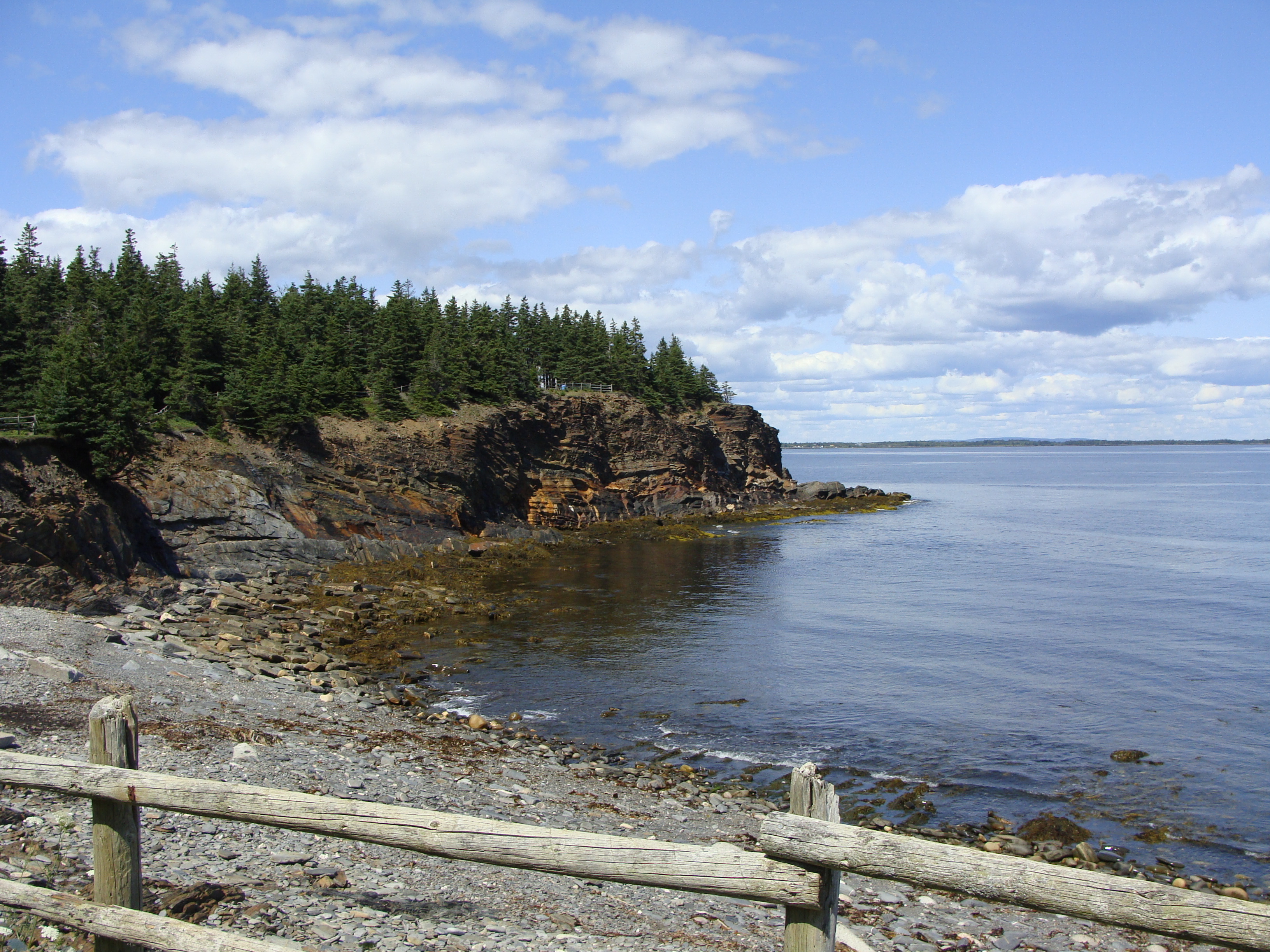 The Classic Ovens